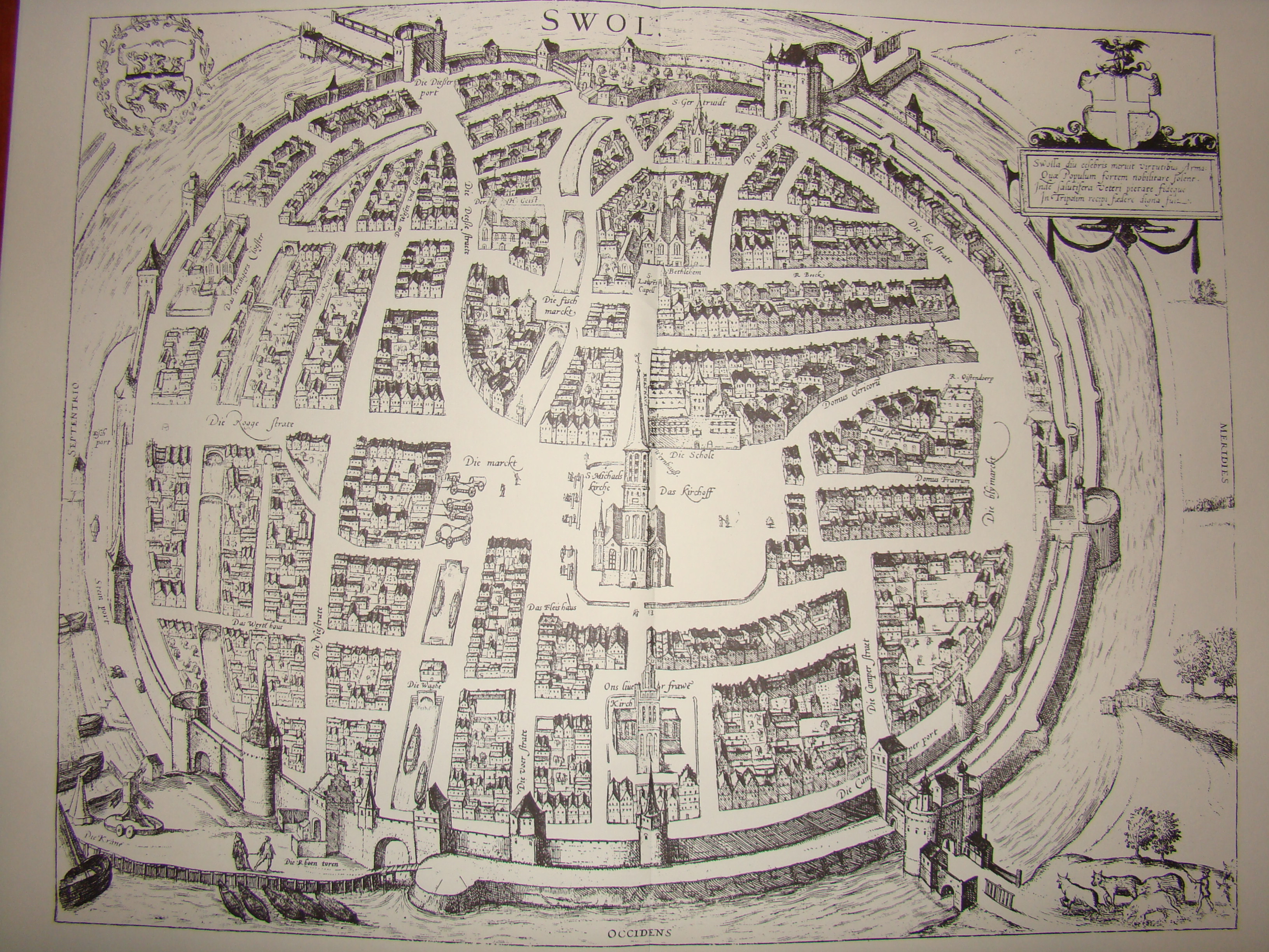 The city of Zwolle in birdeyesview between 1541-1622